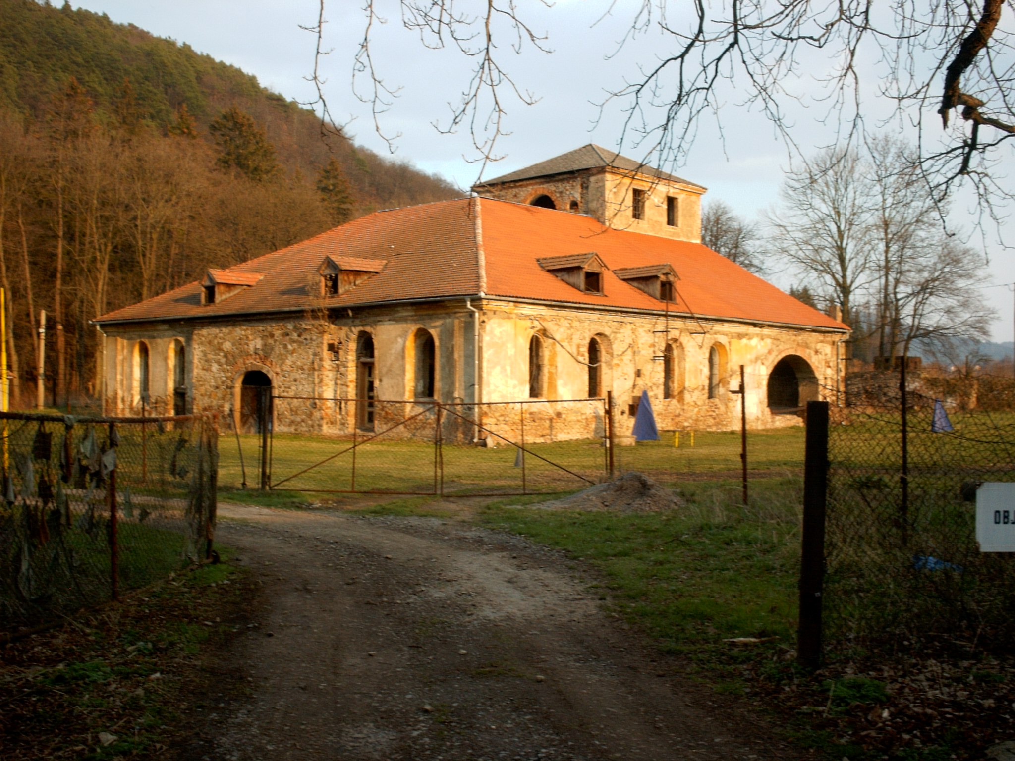 Barbora, an early 19th century furnace in Jince, Příbram District, Czech Republic